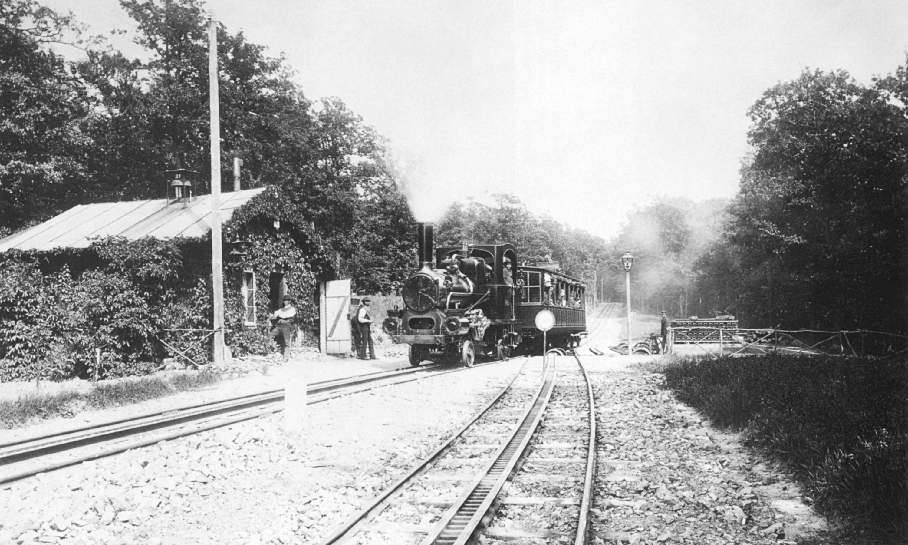 Kahlenbergbahn cog railway in Vienna, first Kahlenberg station, after 1876 changing point from dual track to single track